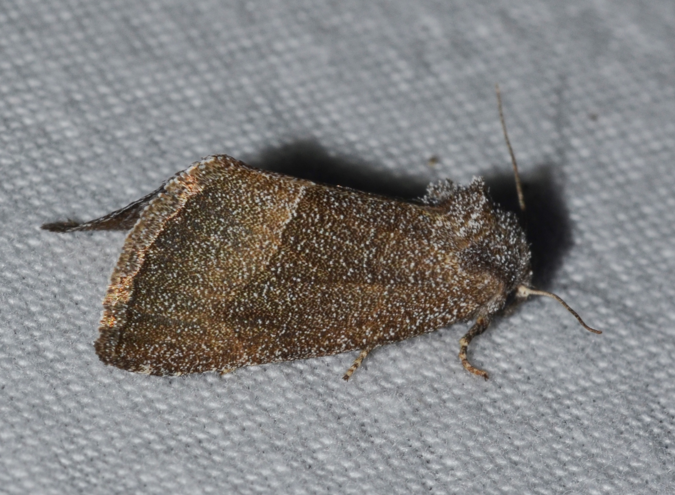 Mothing 8/22/14